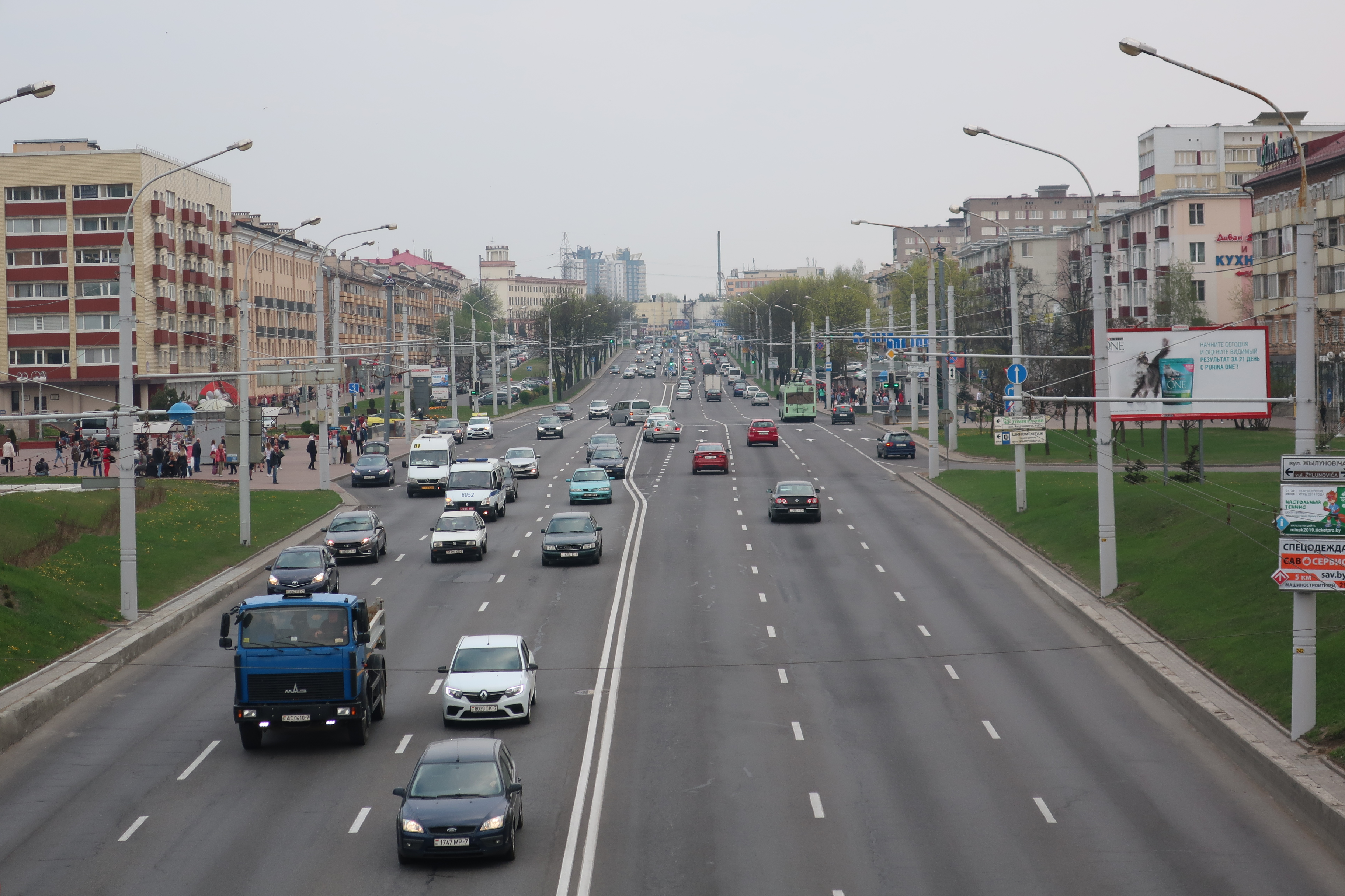 Partyzanski avenue (Minsk, Belarus)